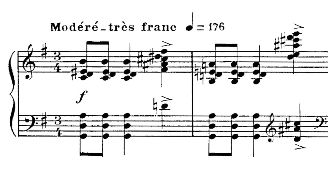 Valse I